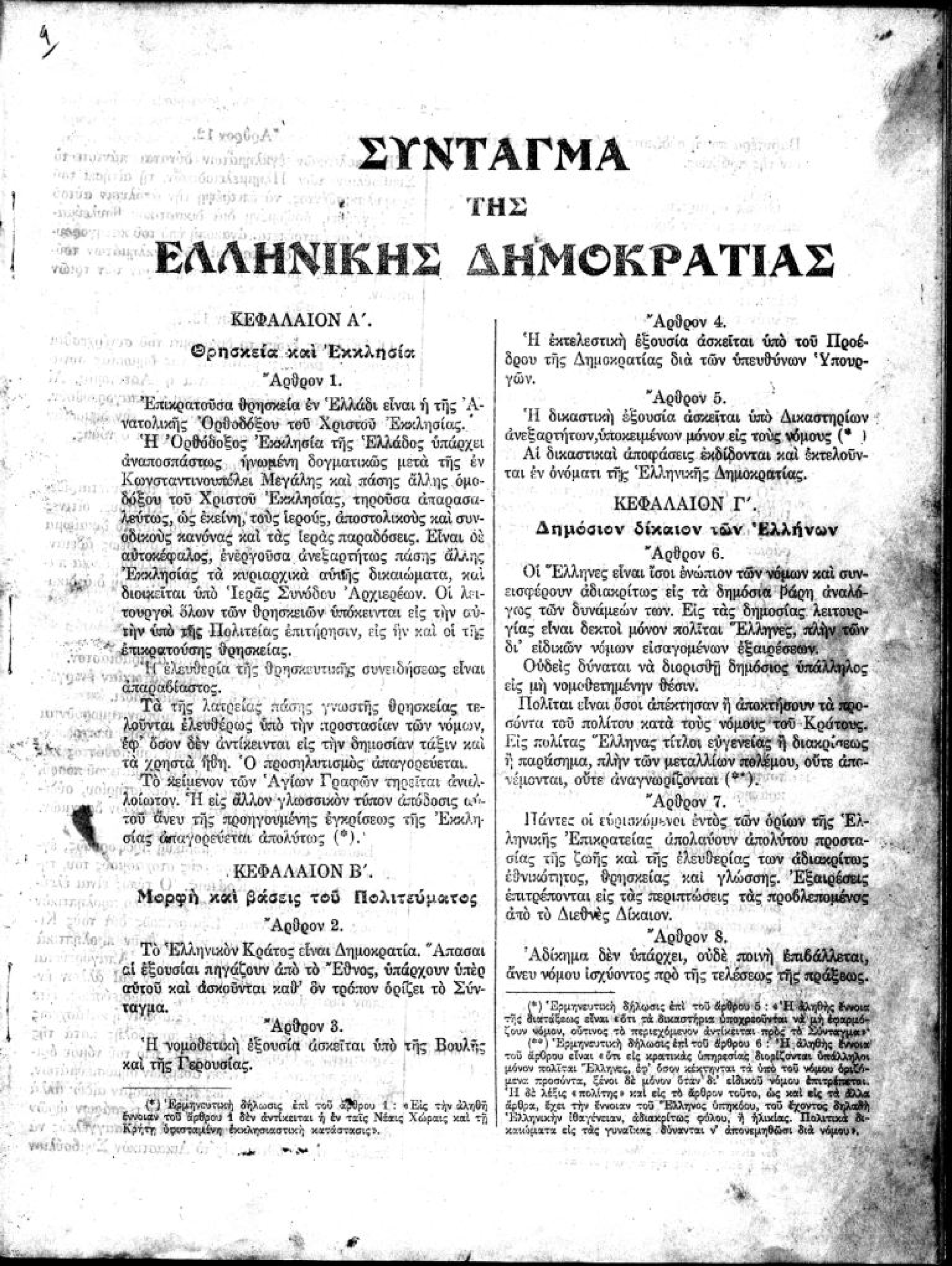 The front page of the Greek constitution of 3 June 1927